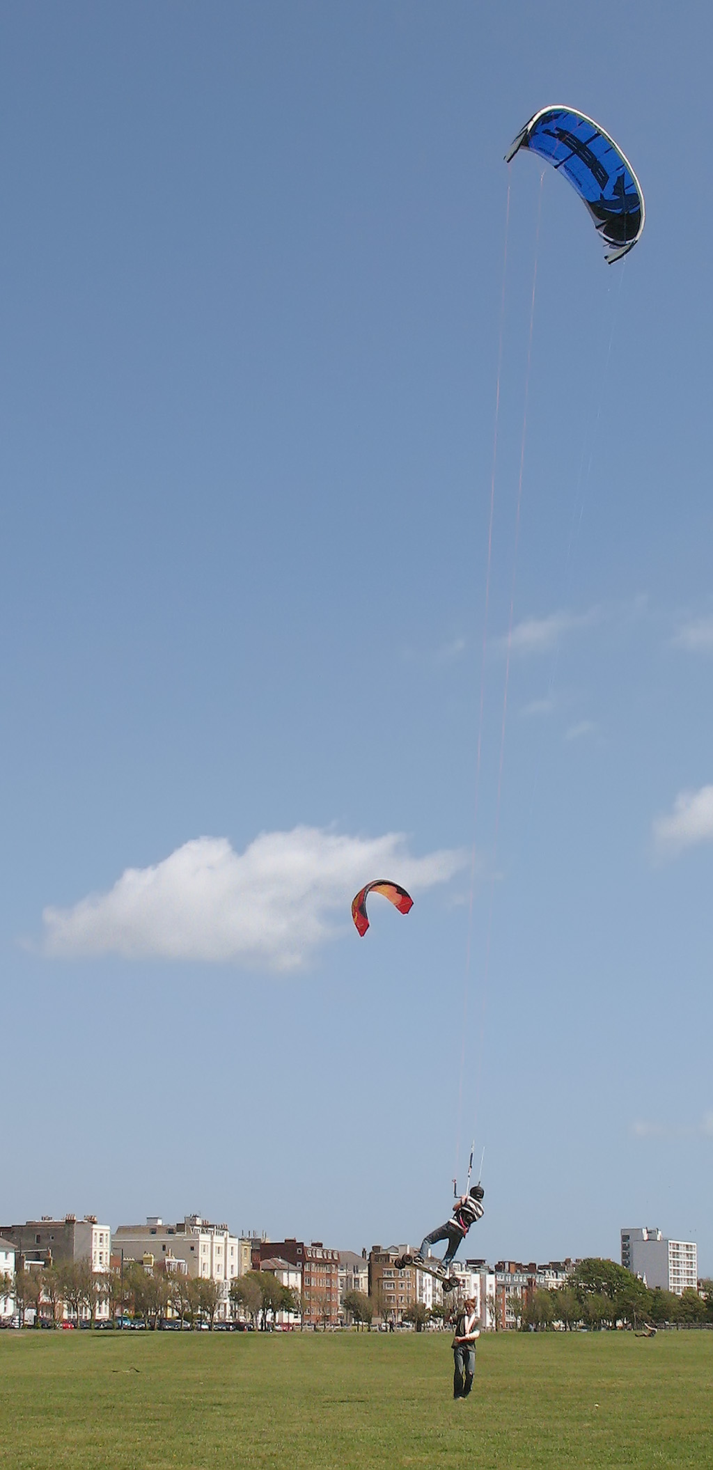 Kite landboarders on Southsea Common, UK, photographed on the 19 of May 2007 by Brian Burnell Image uploaded by me User:George.Hutchinson from a photograph taken by and supplied by Brian Burnell. Wikipedia editors are reminded that the copyright remains with the photographer, and that the terms of the Creative Commons licence; that allow editors to reuse this image apply to Wikipedia editors also, as they do to other re-users of this image. Breaches of the licence terms are not only unlawful, but are also antisocial, in that breaches discourage photographers from making their images freely available to everyone without payment. Wikipedia re-users are also reminded of the license terms that derivatives of this image should not imply that the adaptation is endorsed or approved by the author or copyright holder. Neither should derivatives be presented as the creation of the author or copyright holder, while clearly stating that the adaptation is a derivative of the original. Attribution online should be in this format Brian Burnell. On the printed page, a simpler form is acceptable - example: "Image: Brian Burnell". Non-Wikipedia users are requested to advise Brian Burnell of its use other than on Wikipedia..